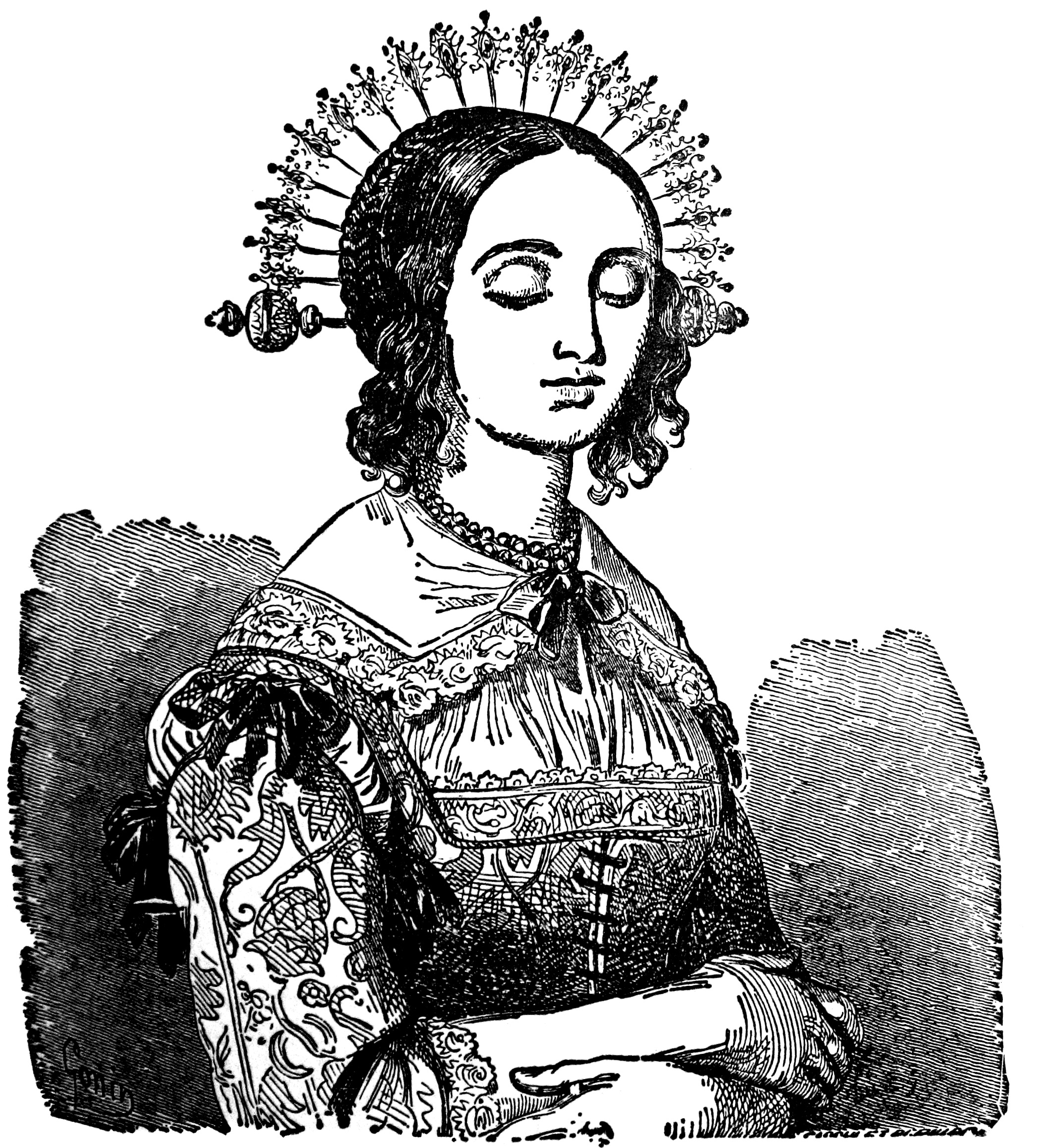 Picture from "I promessi sposi" of Lucia Mondella